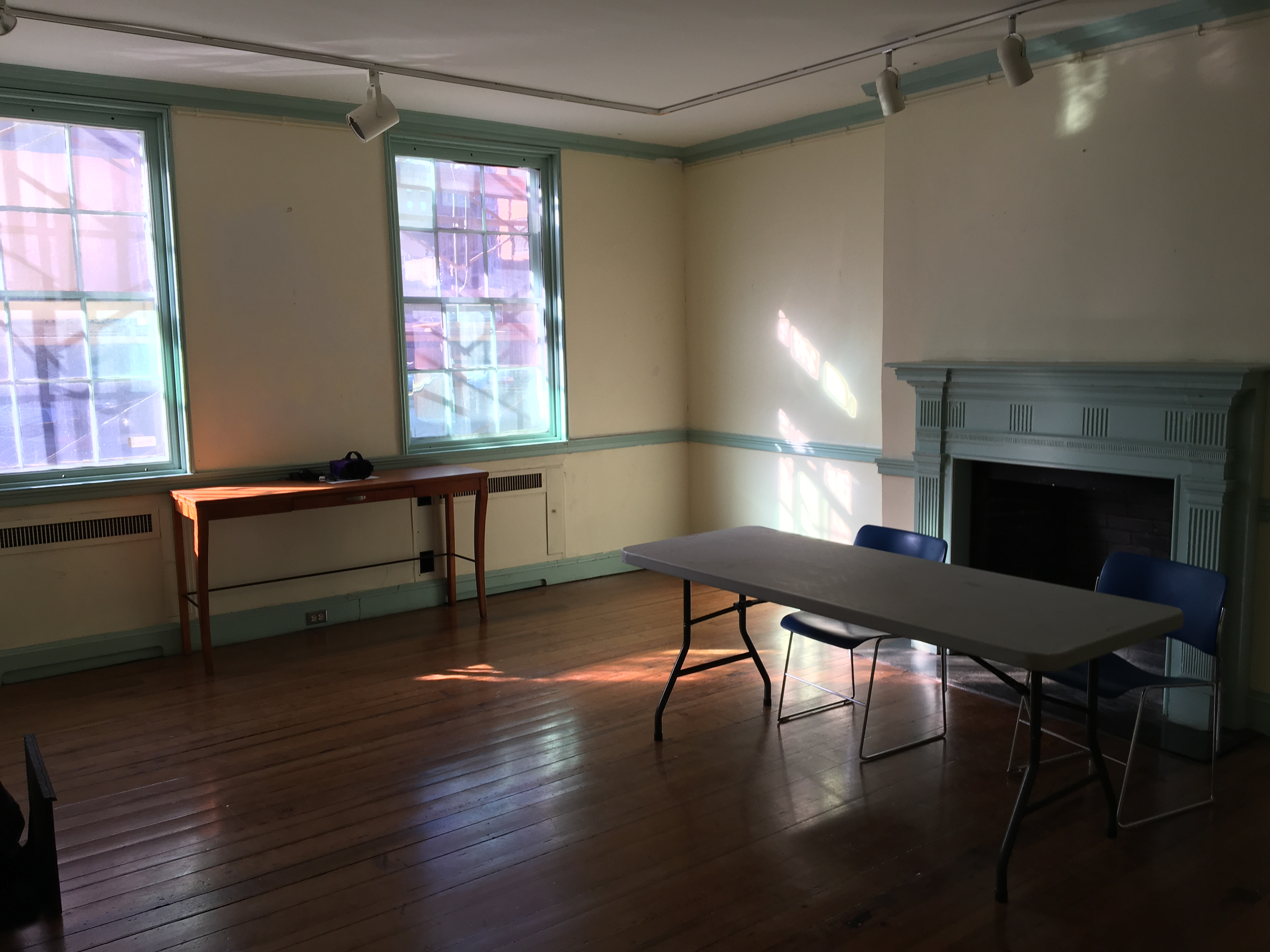 Historic solarized glass found at the Peale Museum in Baltimore, MD